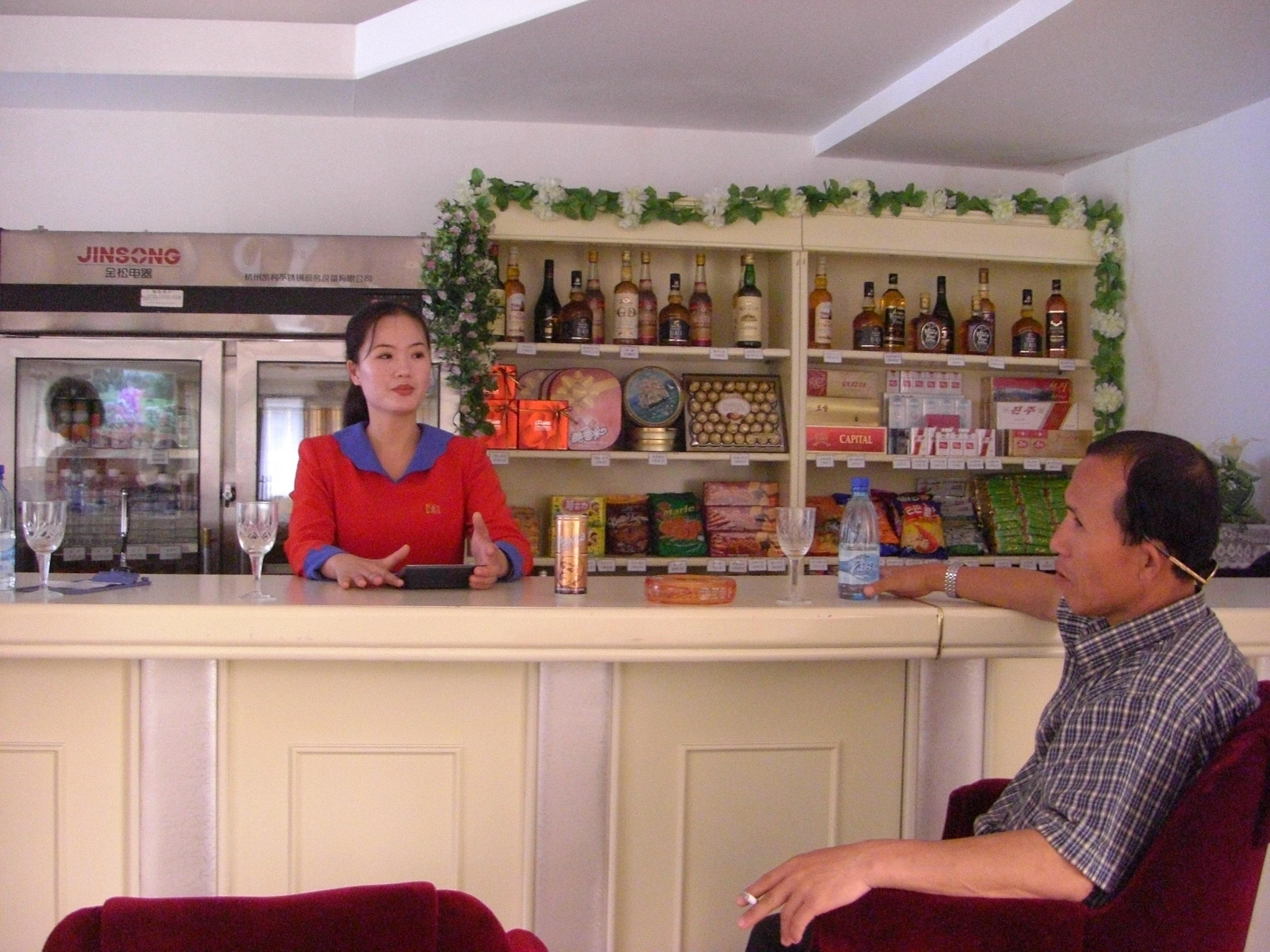 Rest Stop, North Korea.